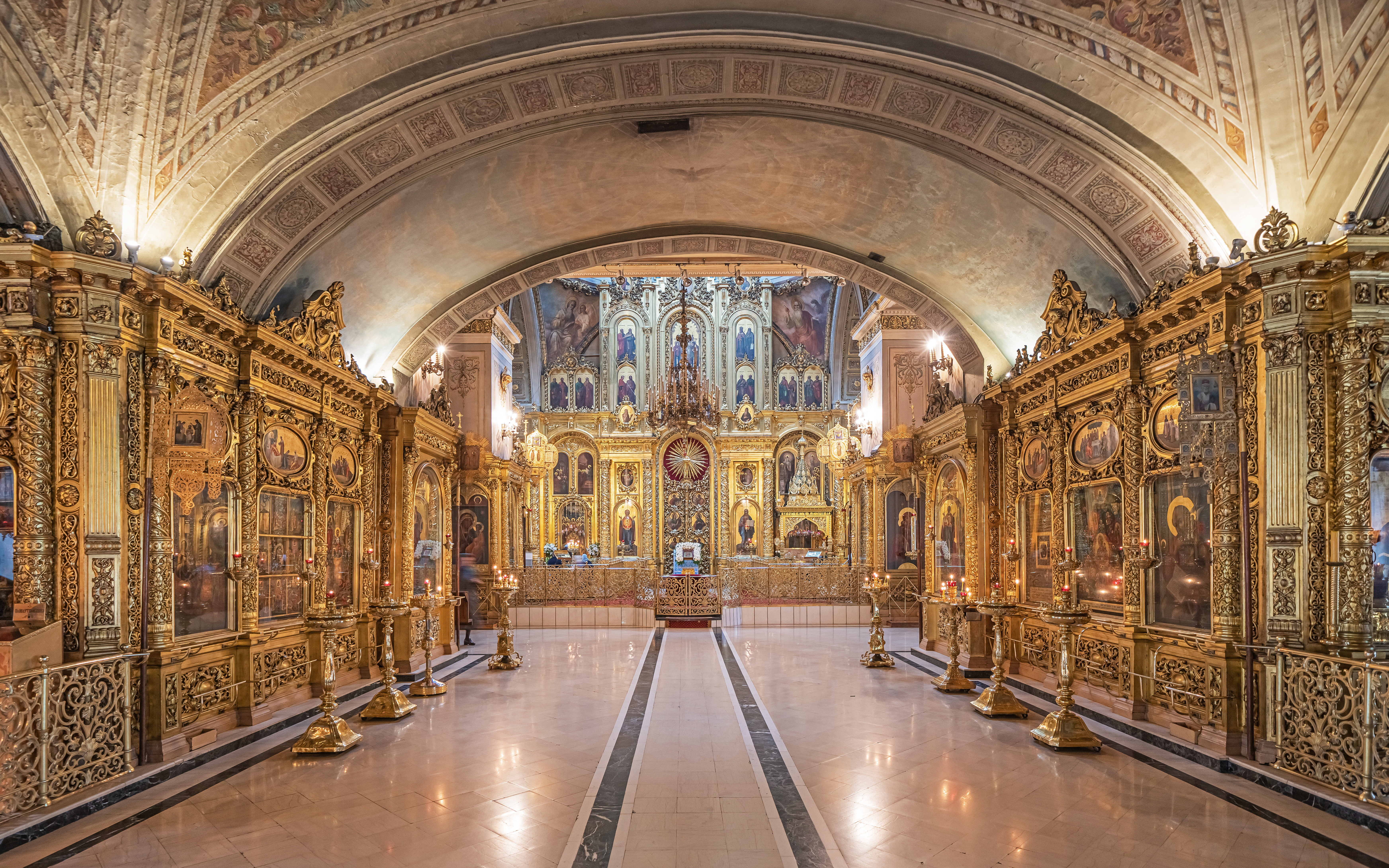 Epiphany Church at Elokhovo in Moscow, Russia